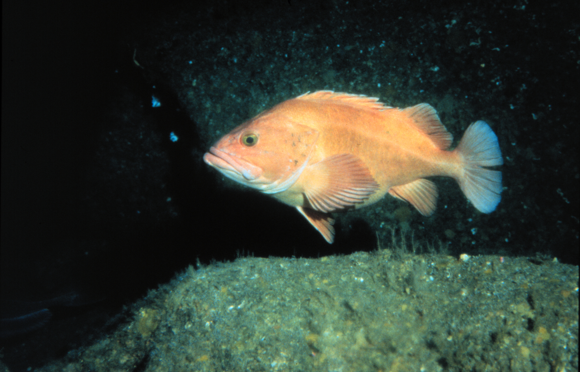 Sebastes ruberrimus taken at Pacific Ocean, Alaska.